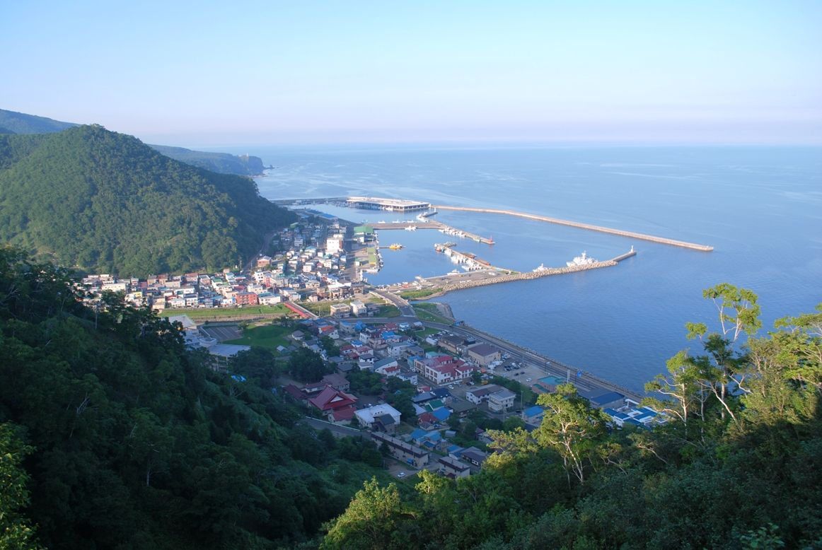 Rausu town from Shiokaze park view